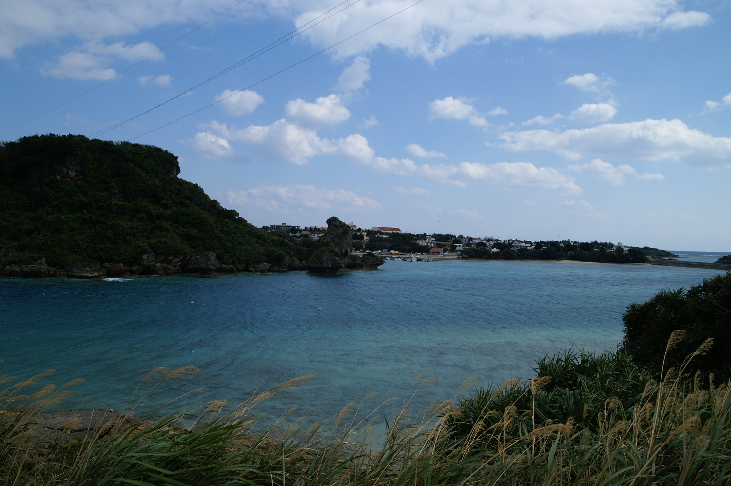 Ikeijima Island viewed from Miyagijima Island, Uruma, Okinawa Prefecture, Japan, Feb. 2, 2007.